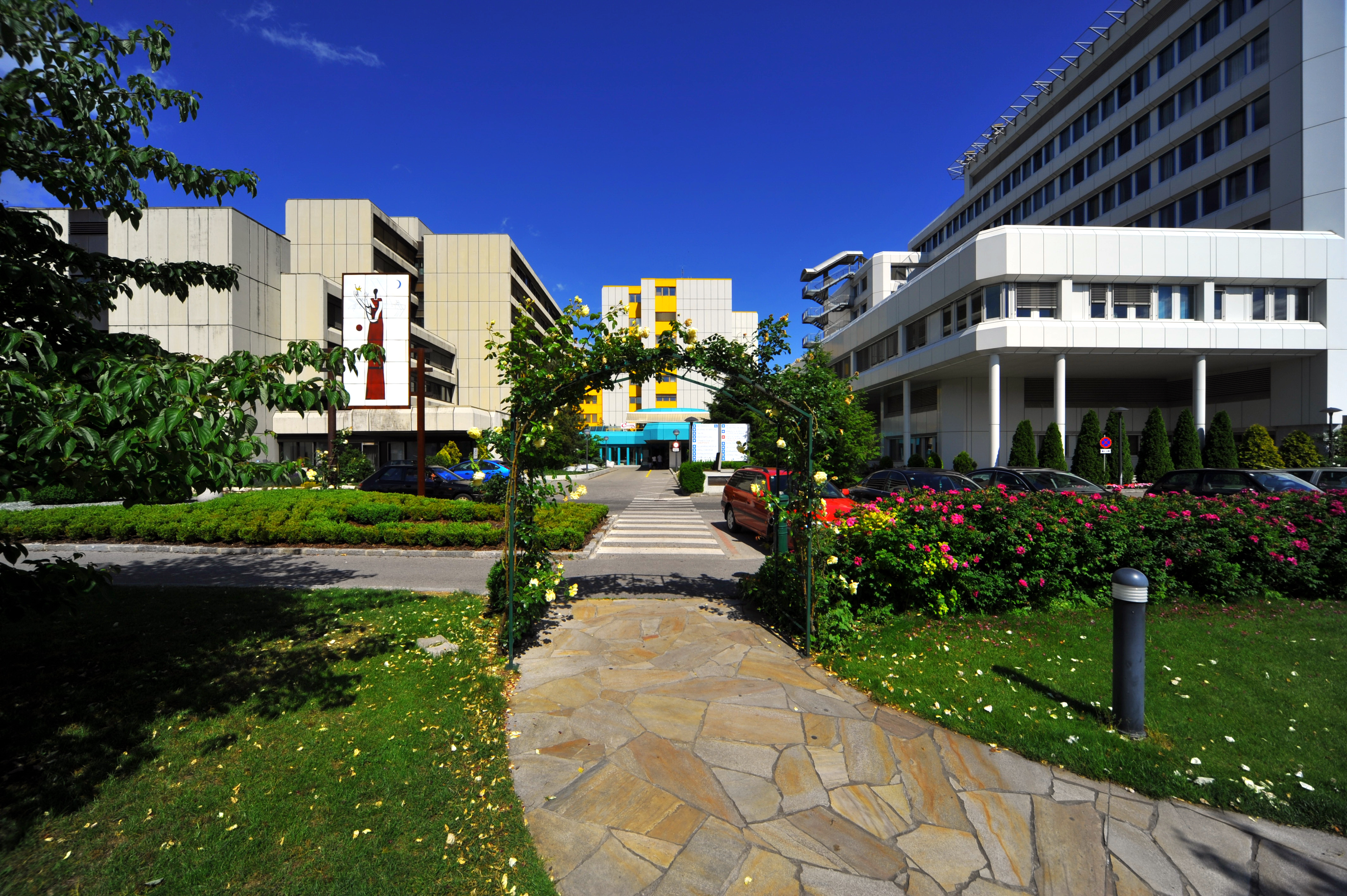 West view at the buildings of the hospital in Villach, Carinthia, Austria